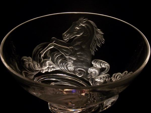 This wonderful Steuben Spiral Bowl was diamond wheel engraved by Edmond Suciu, associate fellow of the Guild of Glass Engravers. This impressive art work is inspired by the sea waves (white horses) giving the impression of a continuous action.